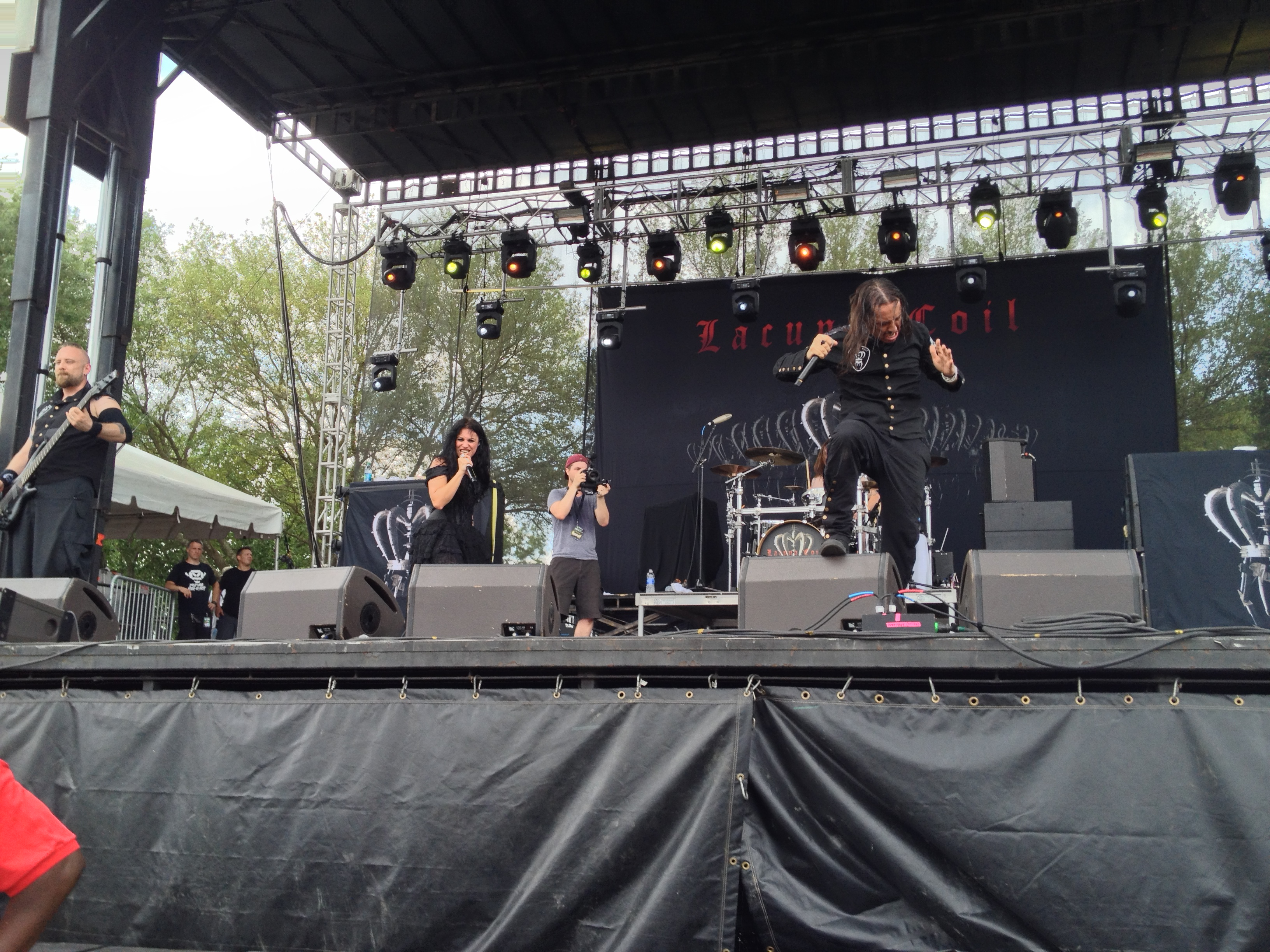 Lacuna Coil performing at Welcome To Rockville 2014